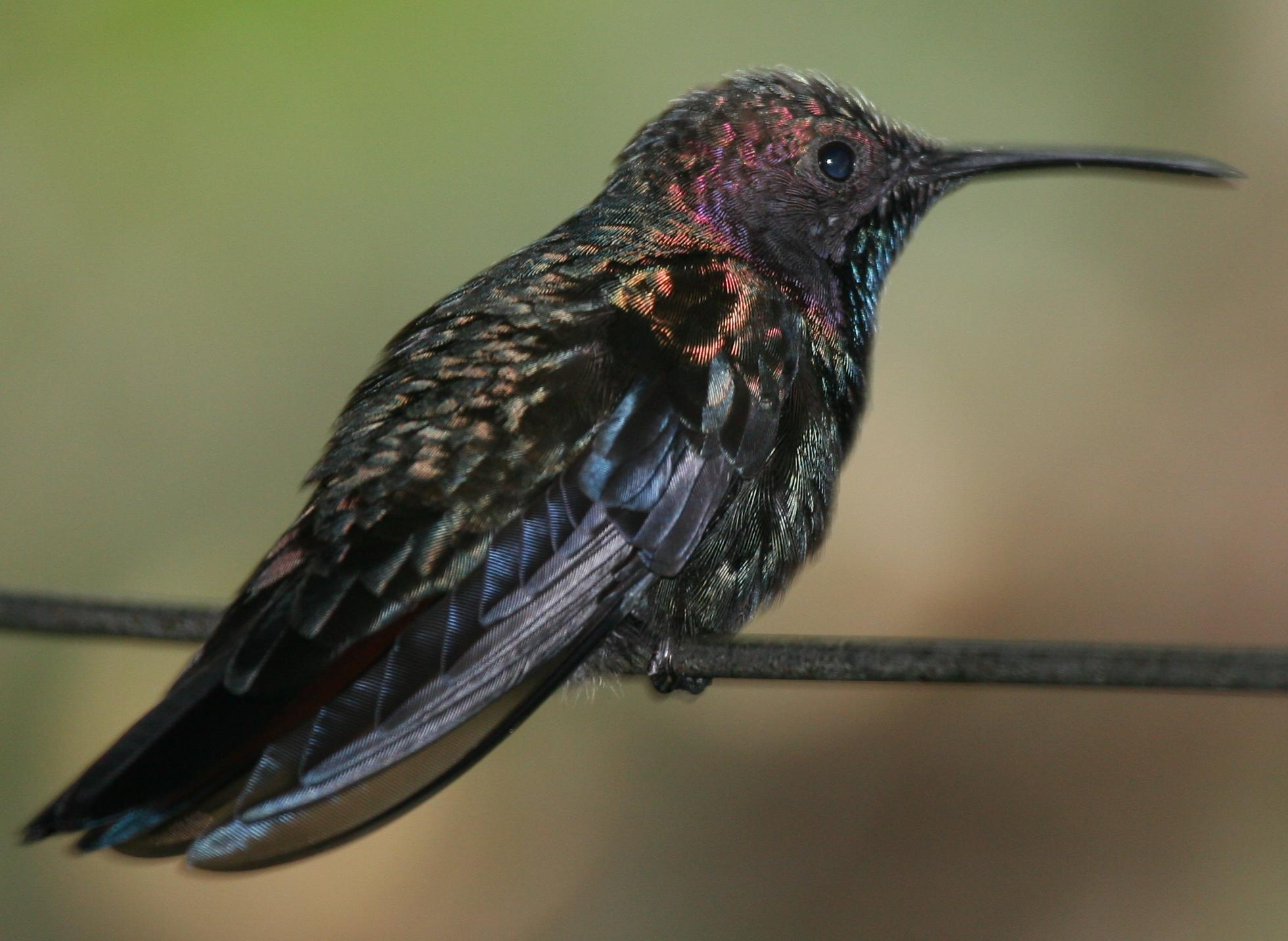 Jamaican Mango